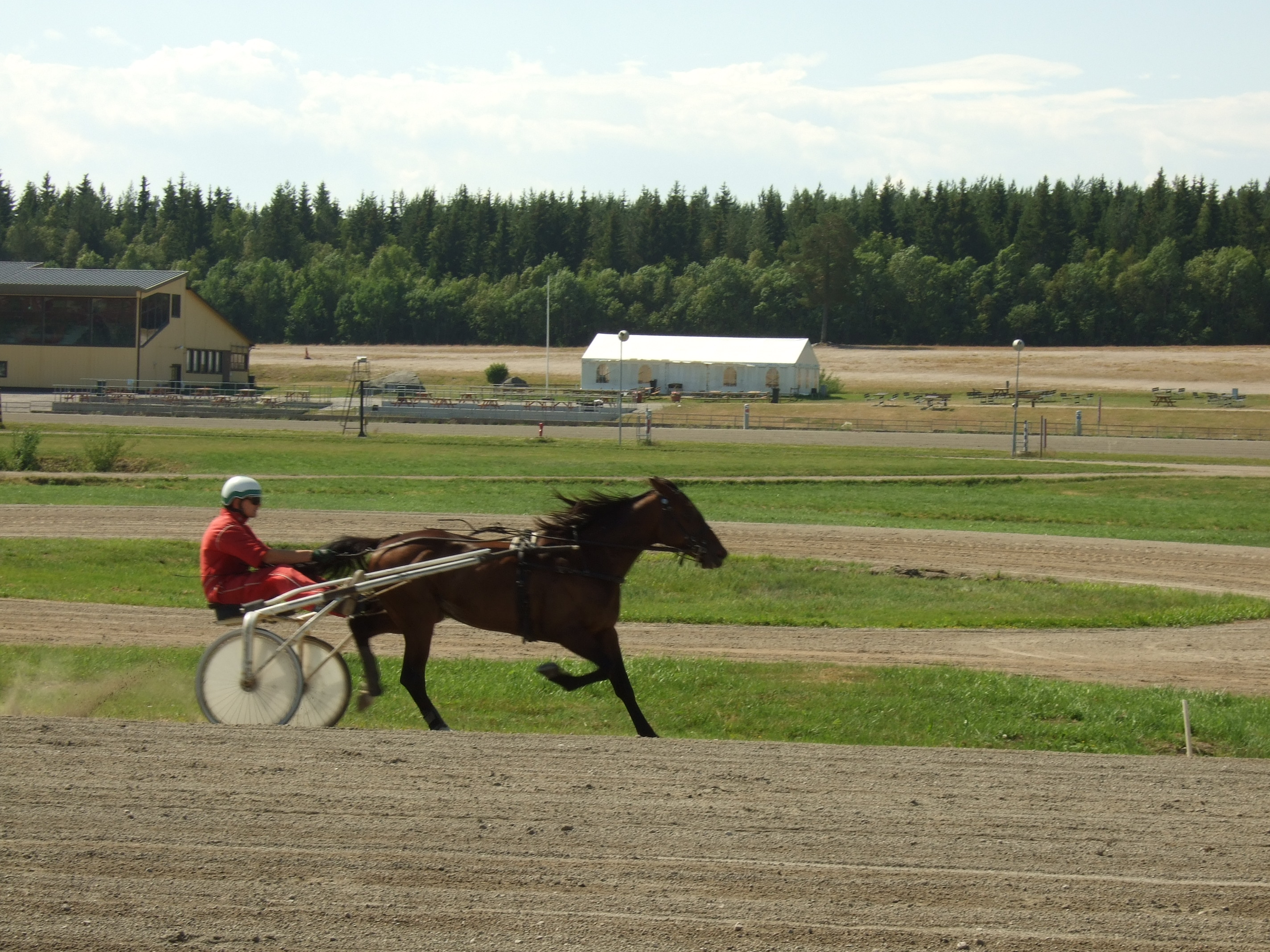 Sulky with horse and driver at the harness racing venue "Hagmyren" outside Hudiksvall in Sweden, viewed from north